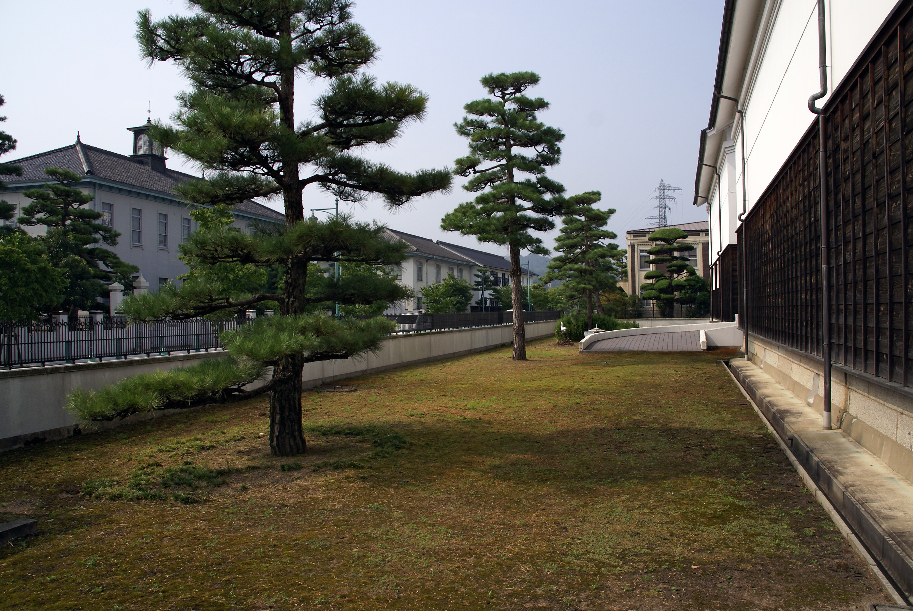 Gunze Head Quarters in Ayabe, Kyoto prefecture, Japan